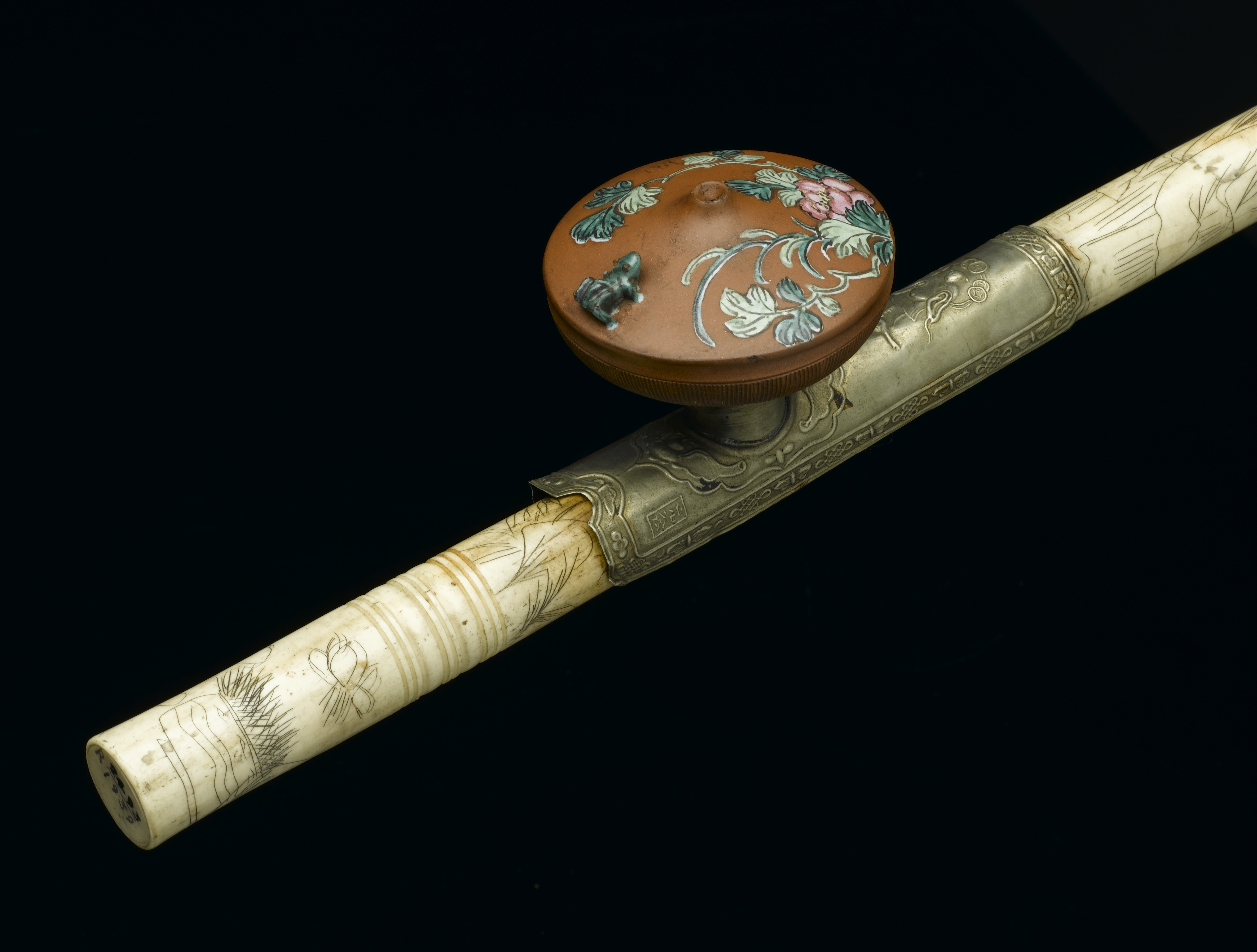 Ivory opium pipe with metal mount and terracotta bowl, Chinese This ornate ivory pipe is engraved with figures and scenes and the terracotta bowl is decorated with a pottery frog and enamelled flowers. Heated opium would have been placed in the top of this bowl and the fumes inhaled through the pipe. Opium is a very powerful drug. Medicinally it was used for pain relief and inducing sleep, but over the centuries many people have become hopelessly addicted to it. By the late 1700s, opium had been used in much of Asia for several hundred years. In China, for example, opium had been in use medicinally since Arab traders brought it from the Middle East in the 600s or 700s CE. Styles of opium pipe reflected the relative wealth or poverty of their owners and ranged from bejewelled, elaborately ornamented works of art like this one to simple constructions of clay or bamboo. Medical Photographic Library